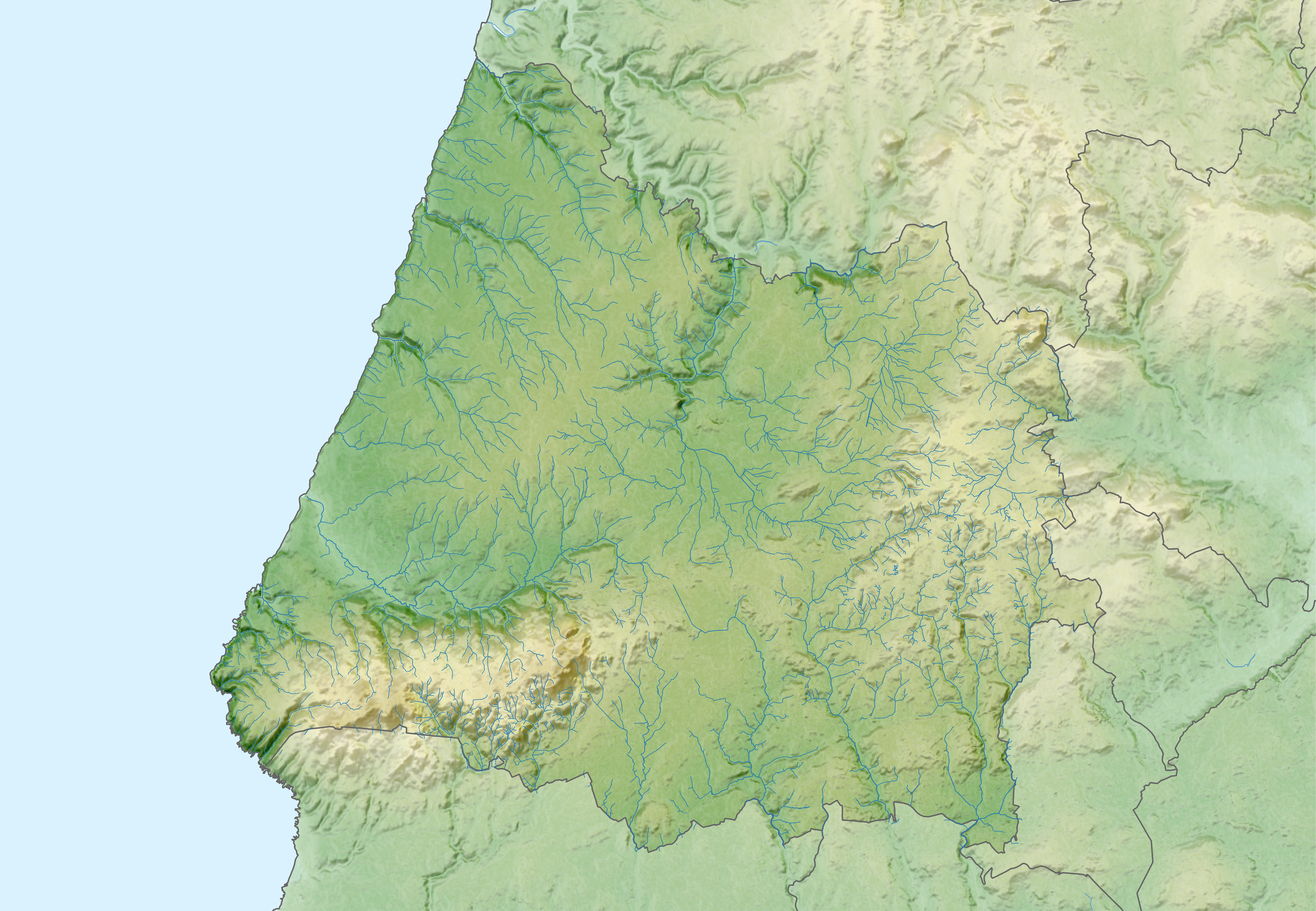 Relief map of the municipality of Sintra, Portugal, including municipal boundaries as well as streams and rivers.